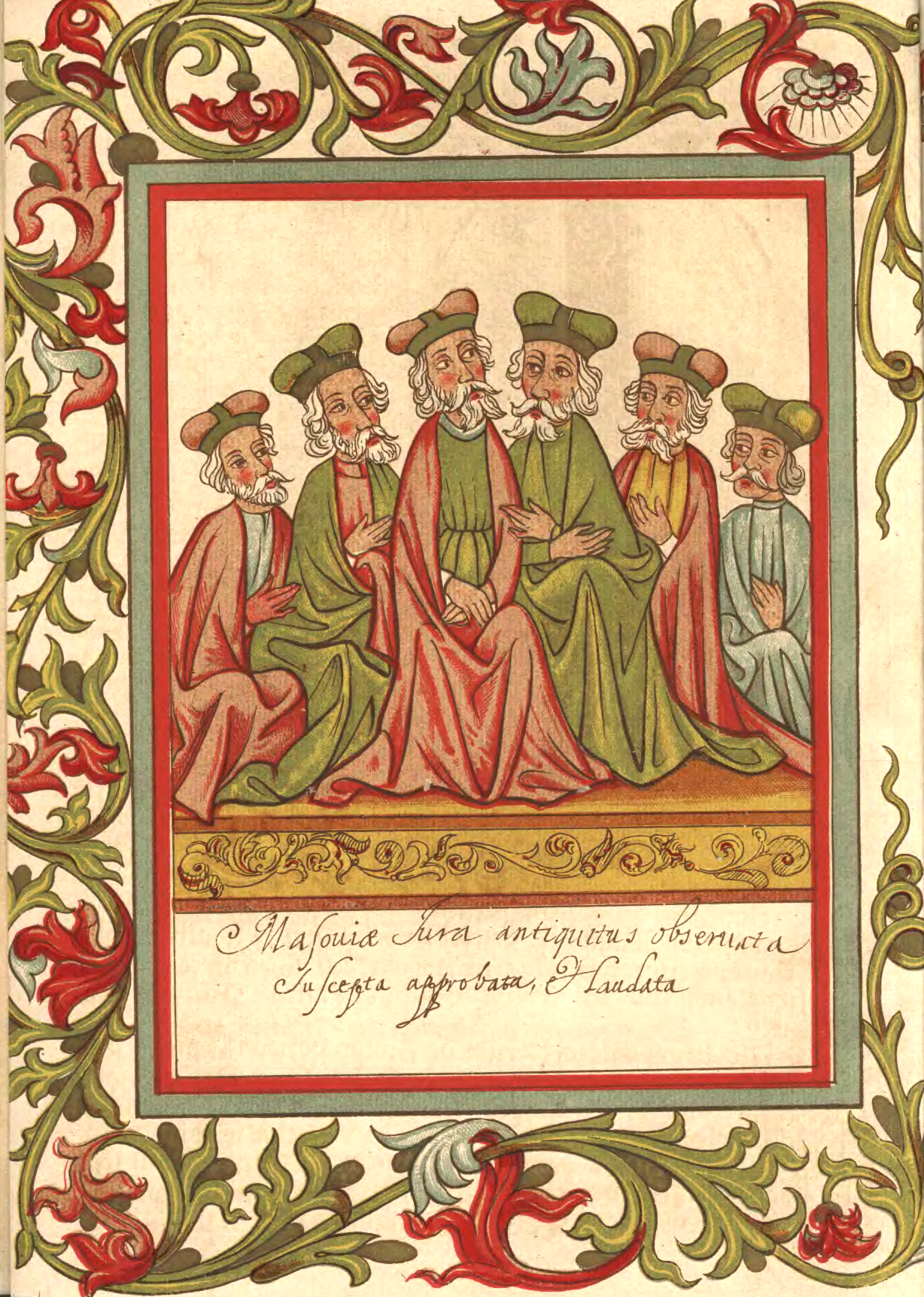 Dukes of Mazovia in 1450